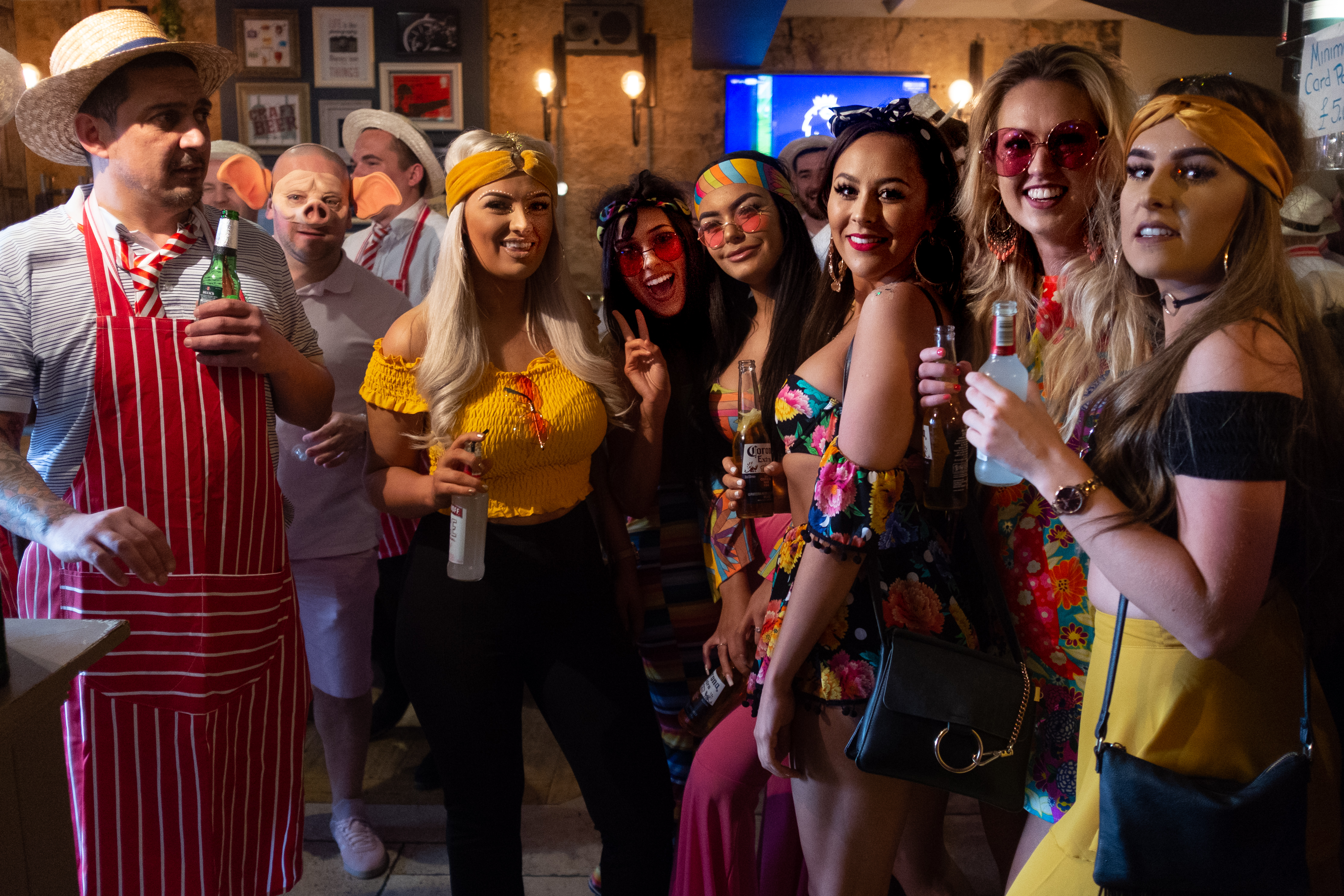 Surrealism everyday as large groups hire wonderful, exotic fancy dress. And local try hard to ignore them.